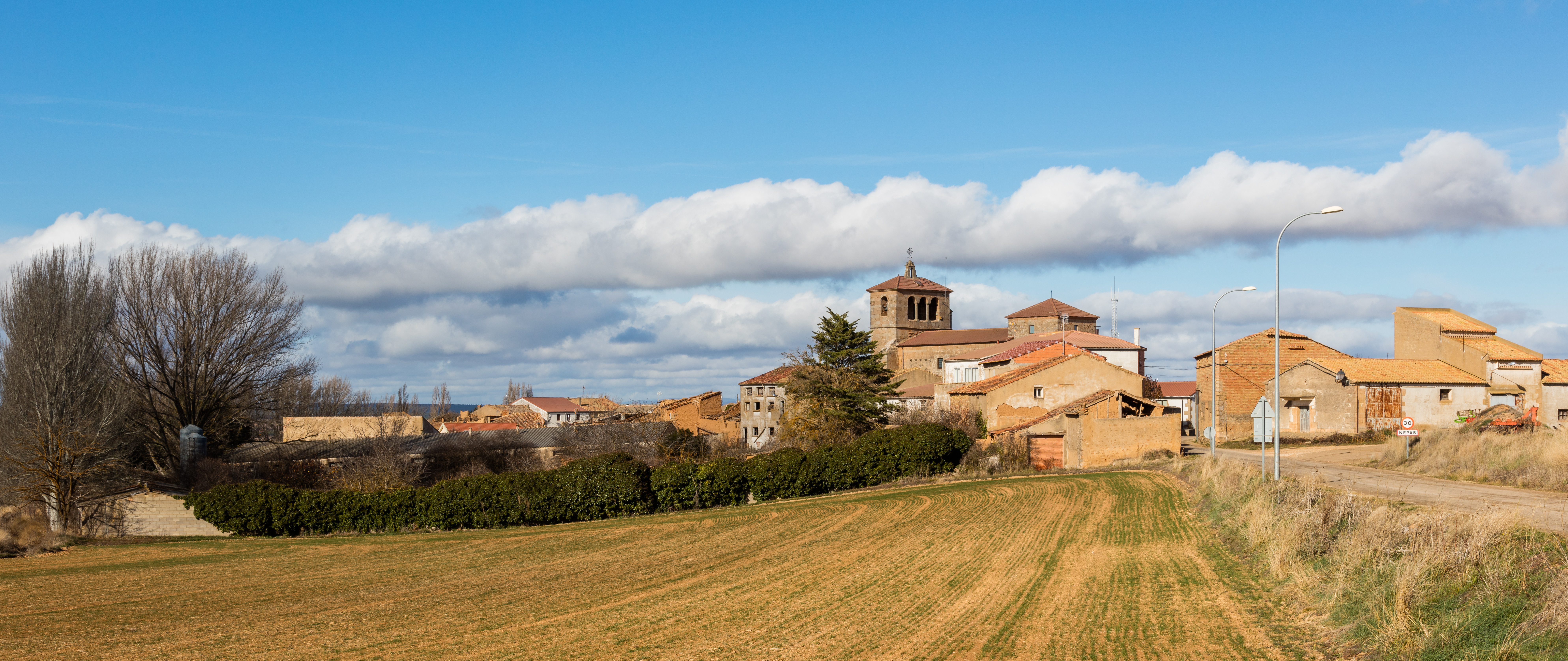 Nepas, Soria, Spain